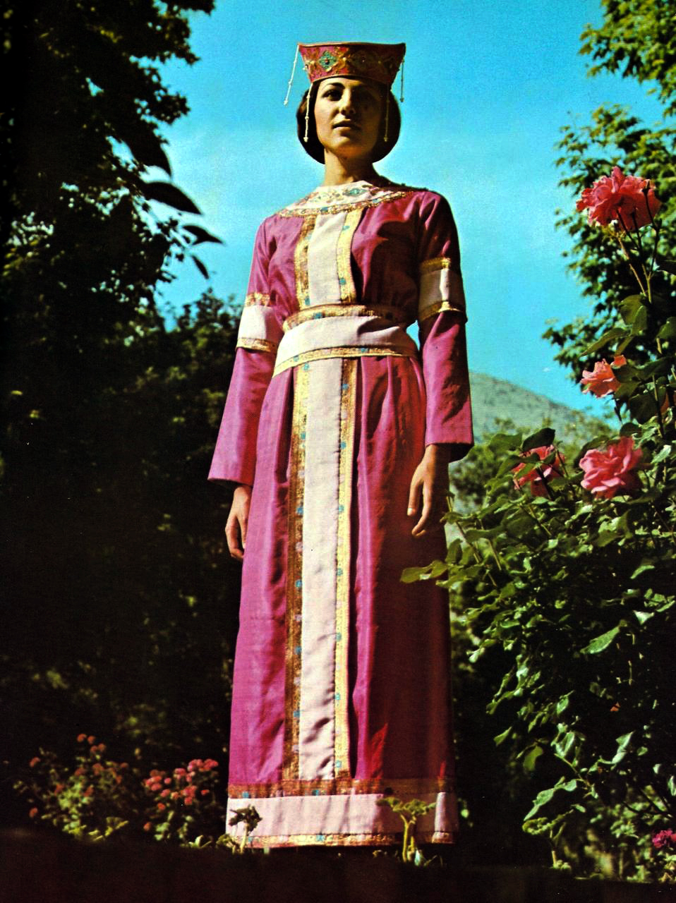 Taraz (national costume) of a Cilician bride